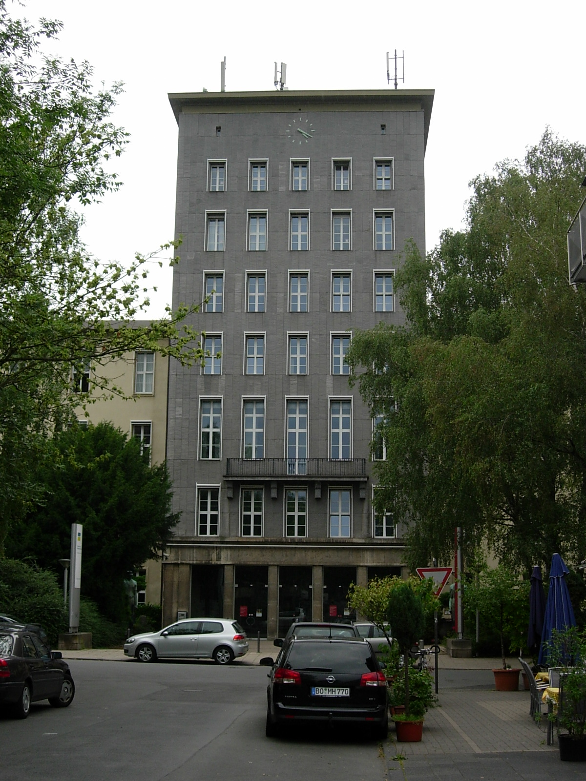 Knappschaft Bahn-See in Bochum.